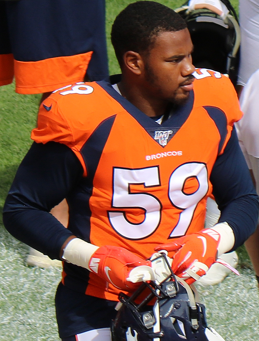 Malik Reed, a National Football League player.